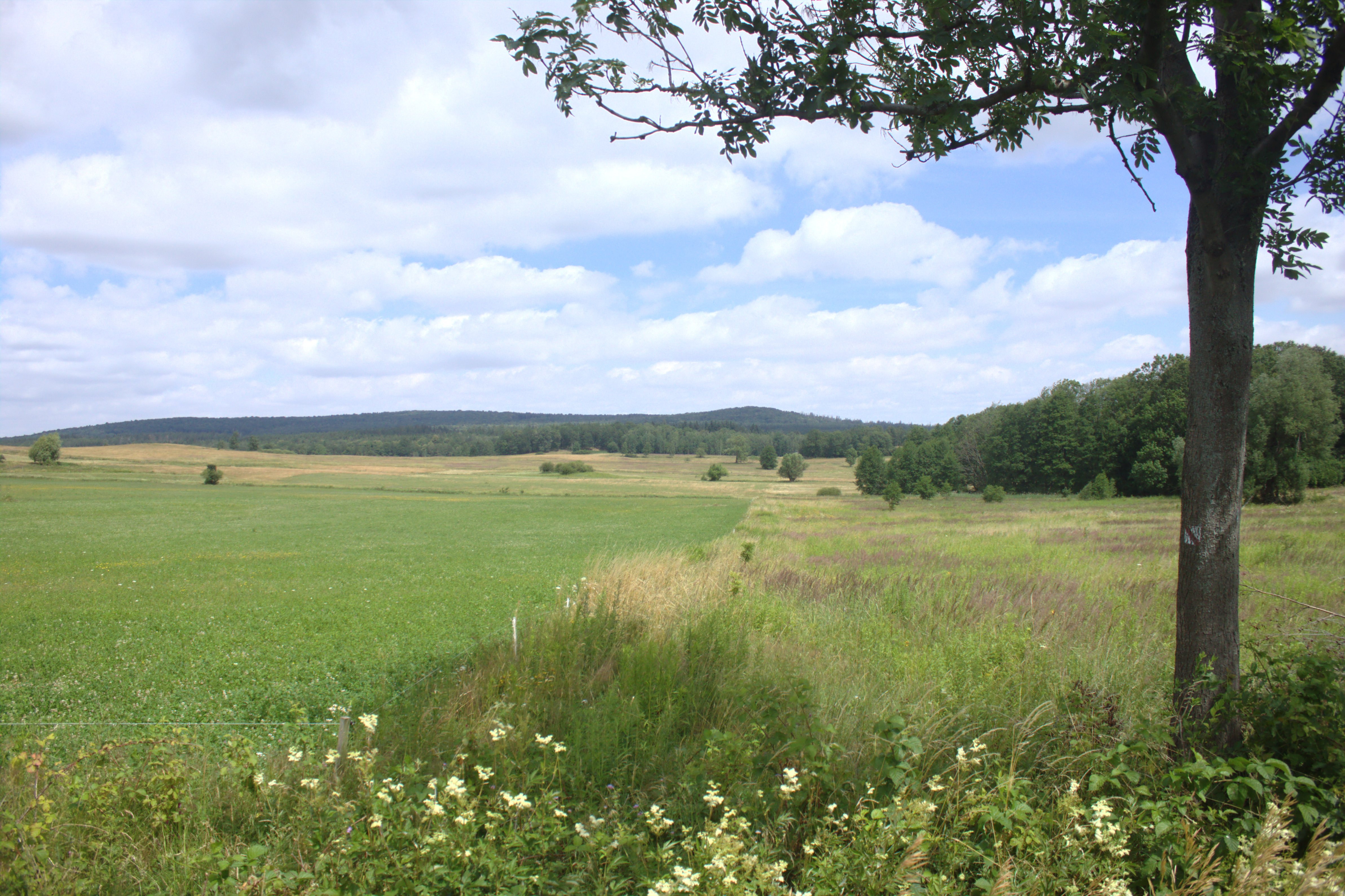 This photograph was created as a part of Wikiexpedition Lower Silesia, a project supported by Wikimedia Poland grant.